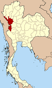 Map of Thailand highlighting Tak province